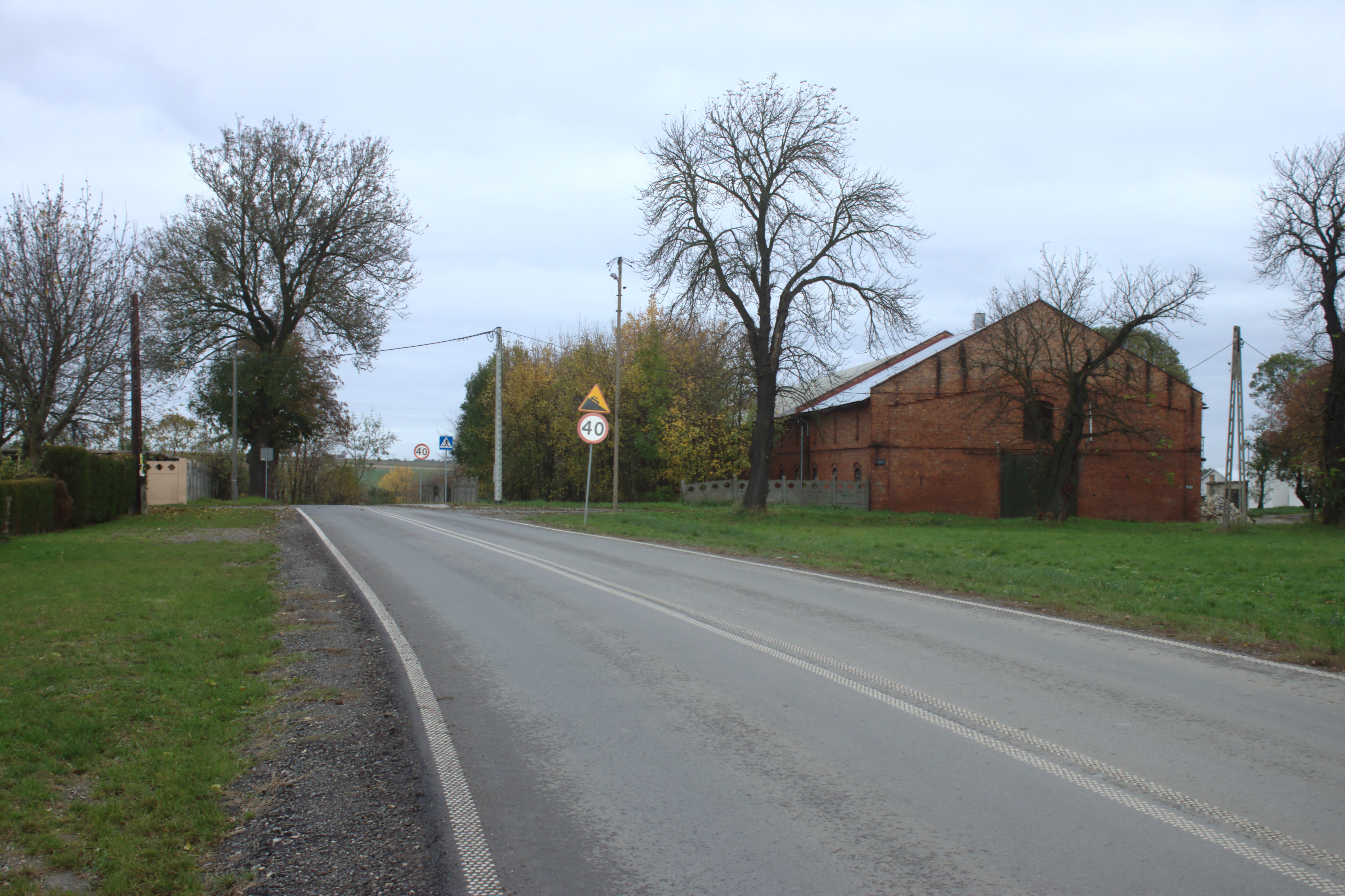 A road in Brzeźnica, Poland